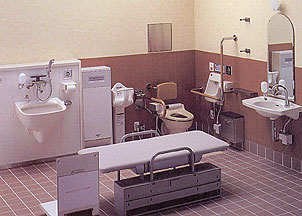 The toilets are products of Toyo Toki Co., Ltd.(For terms of use, see 内閣府ホームページ利用規約 - 内閣府.)